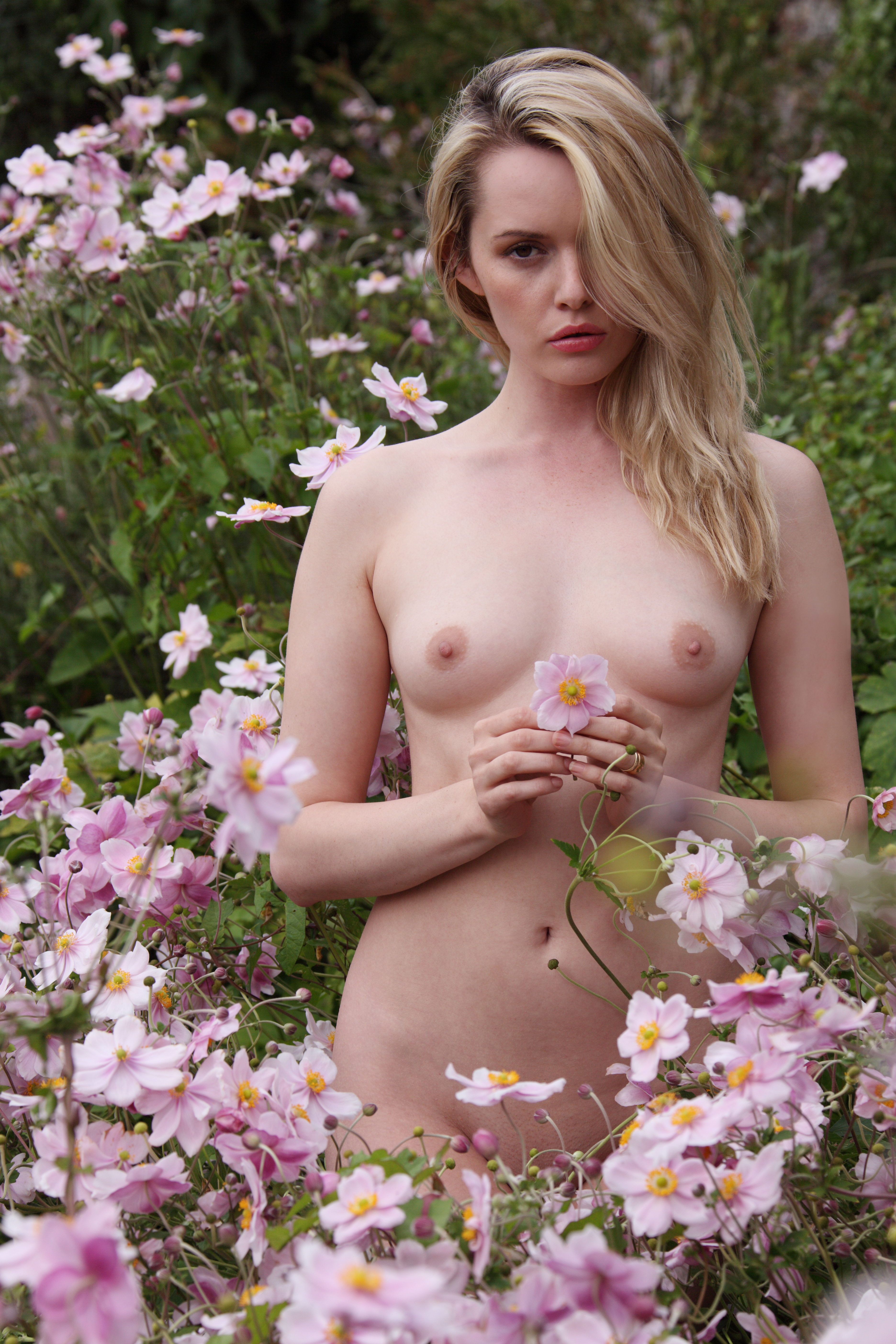 I think this picture makes Carla look like a magical nymph-like creature who gives some of her natural beauty to the flowers. If this was really true, I guess I might have more of an interest in gardening.